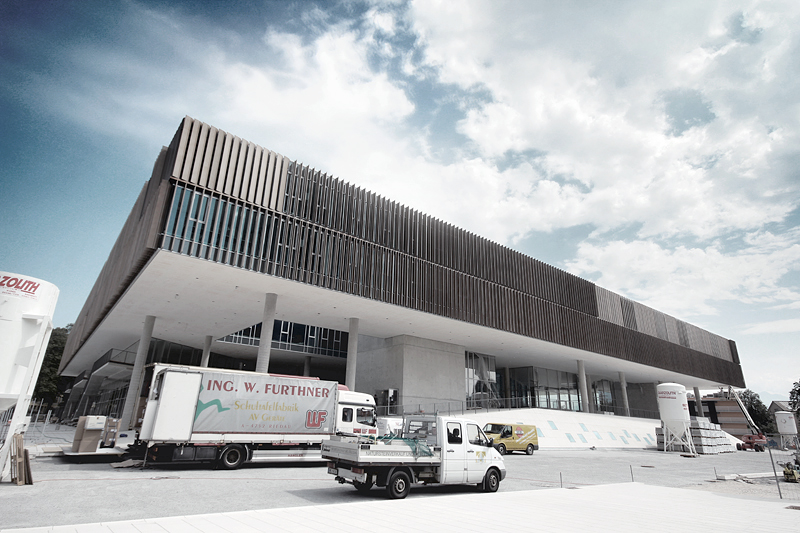 Photograph of the Uni-Park Nonntal in Salzburg, Austria.